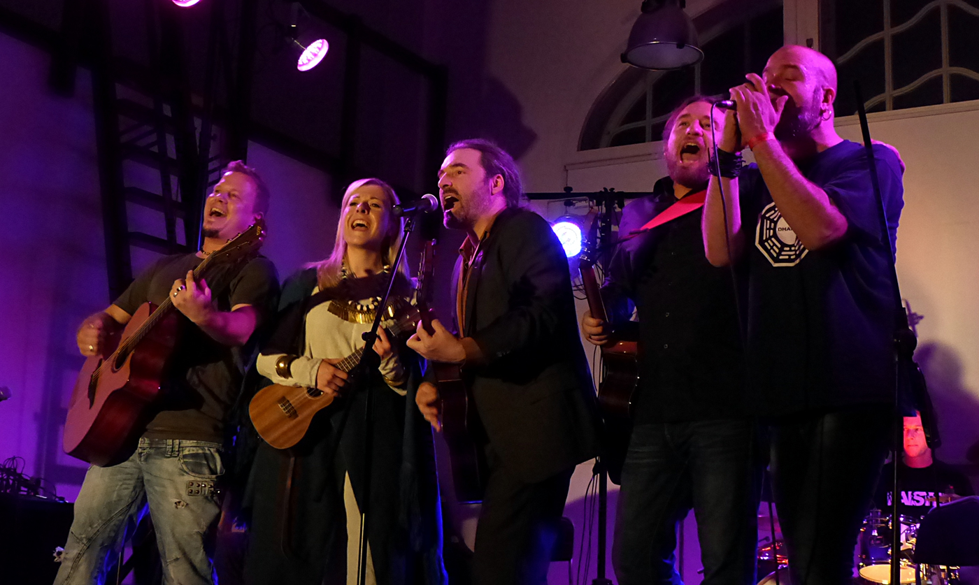 Tommy Krappweis, his band Harpo Speaks!!, Schandmaul and Bina Bianca playing a concert at the bumm event in Munich, Germany, 2015